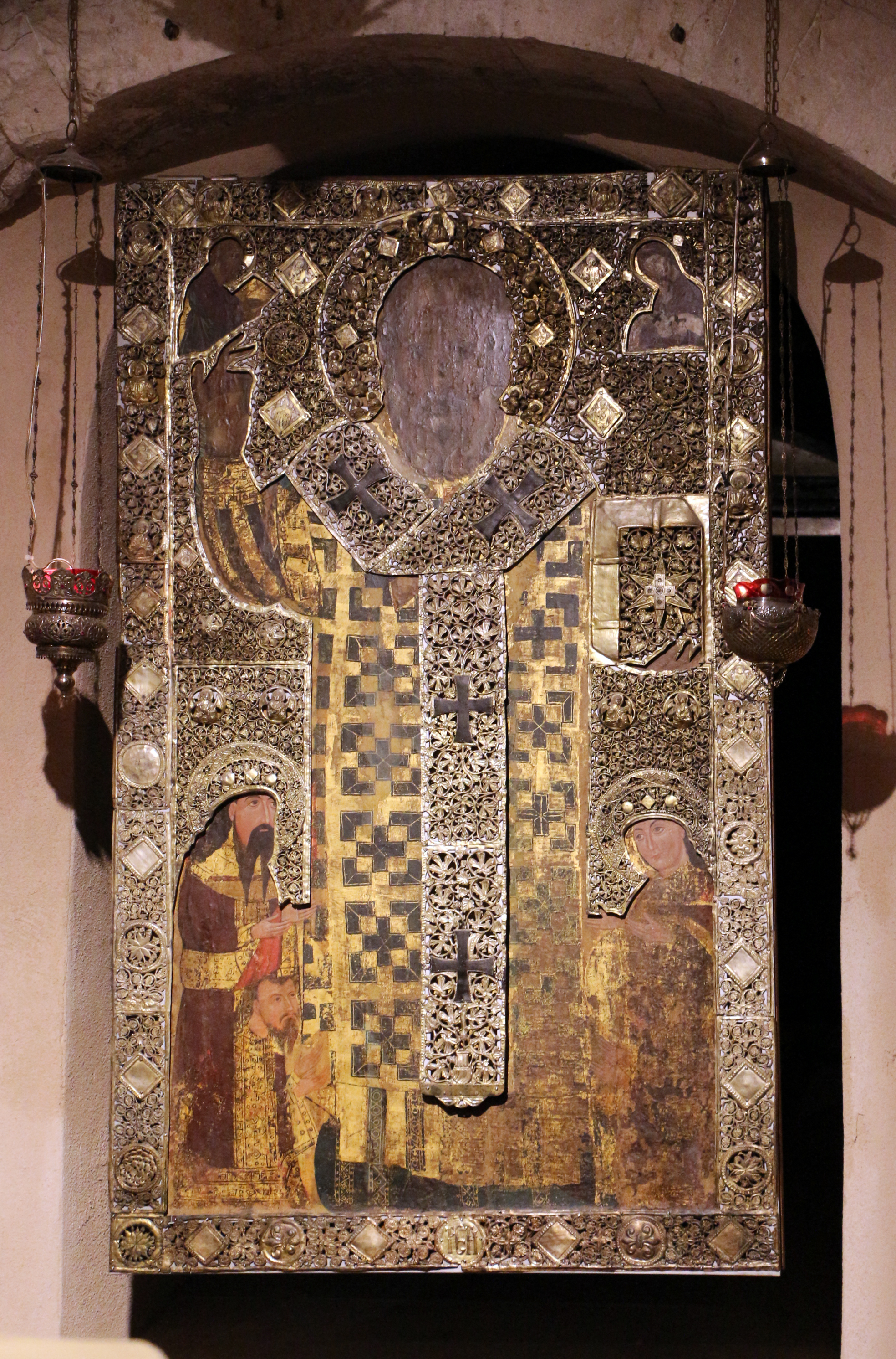 San Nicola (Bari) - Interior